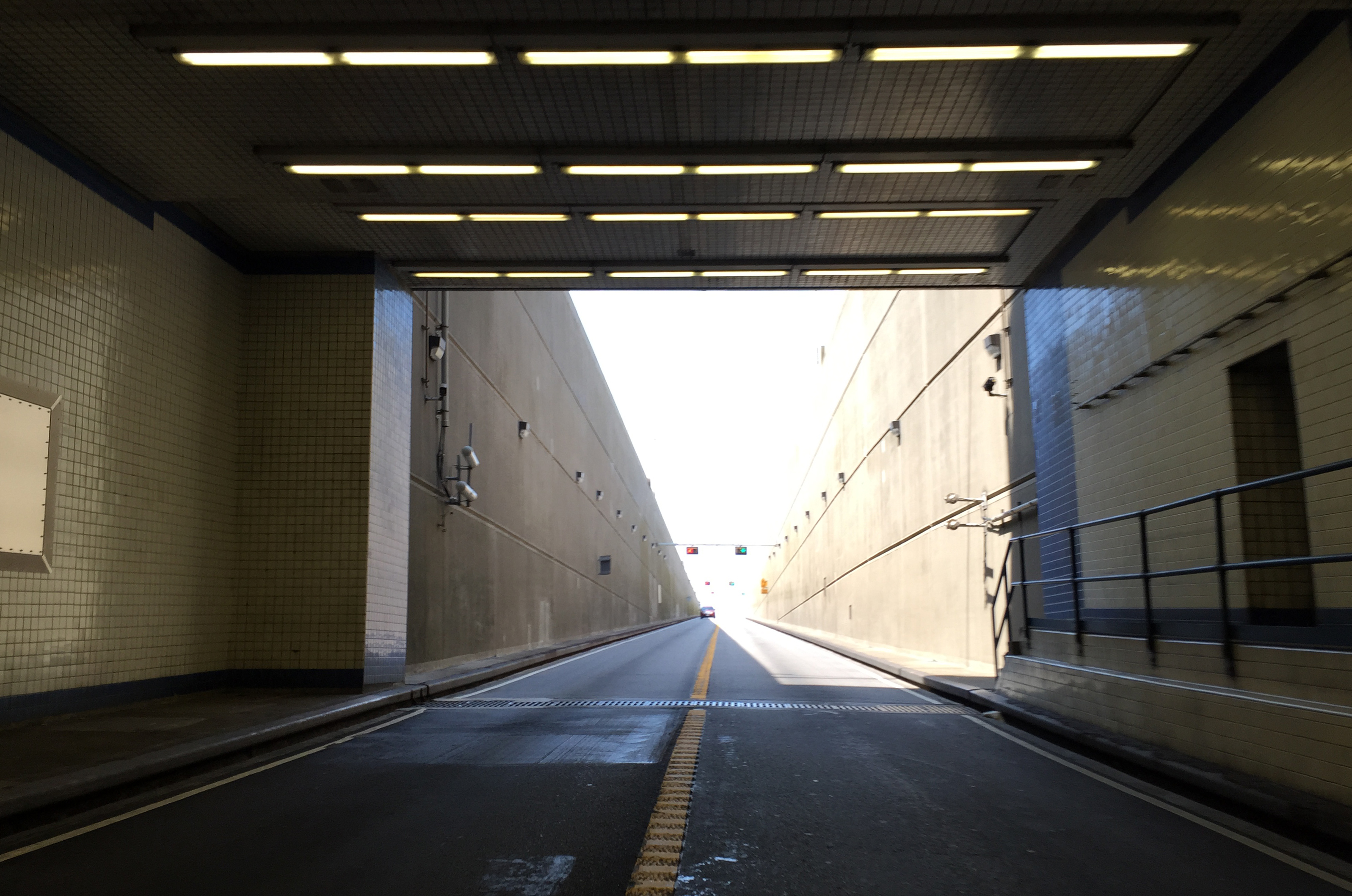 View south along U.S. Route 13 (Chesapeake Bay Bridge-Tunnel) exiting the south portal of the Chesapeake Channel Tunnel in Chesapeake Bay, Northampton County, Virginia